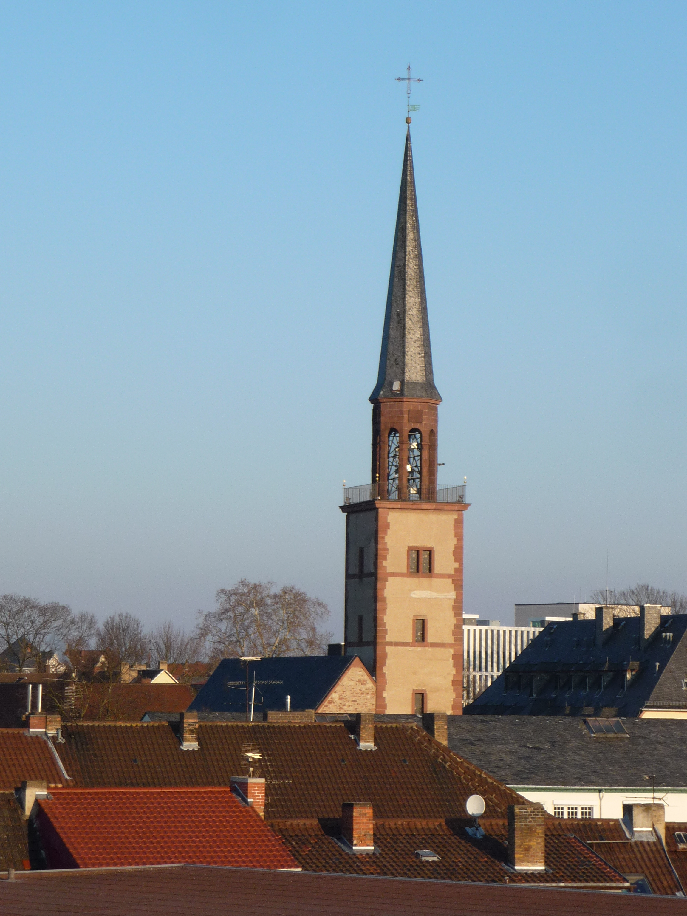 The Magnuskirche is a small church in Worms, Germany, to the south of Worms Cathedral. It is the city's smallest church.